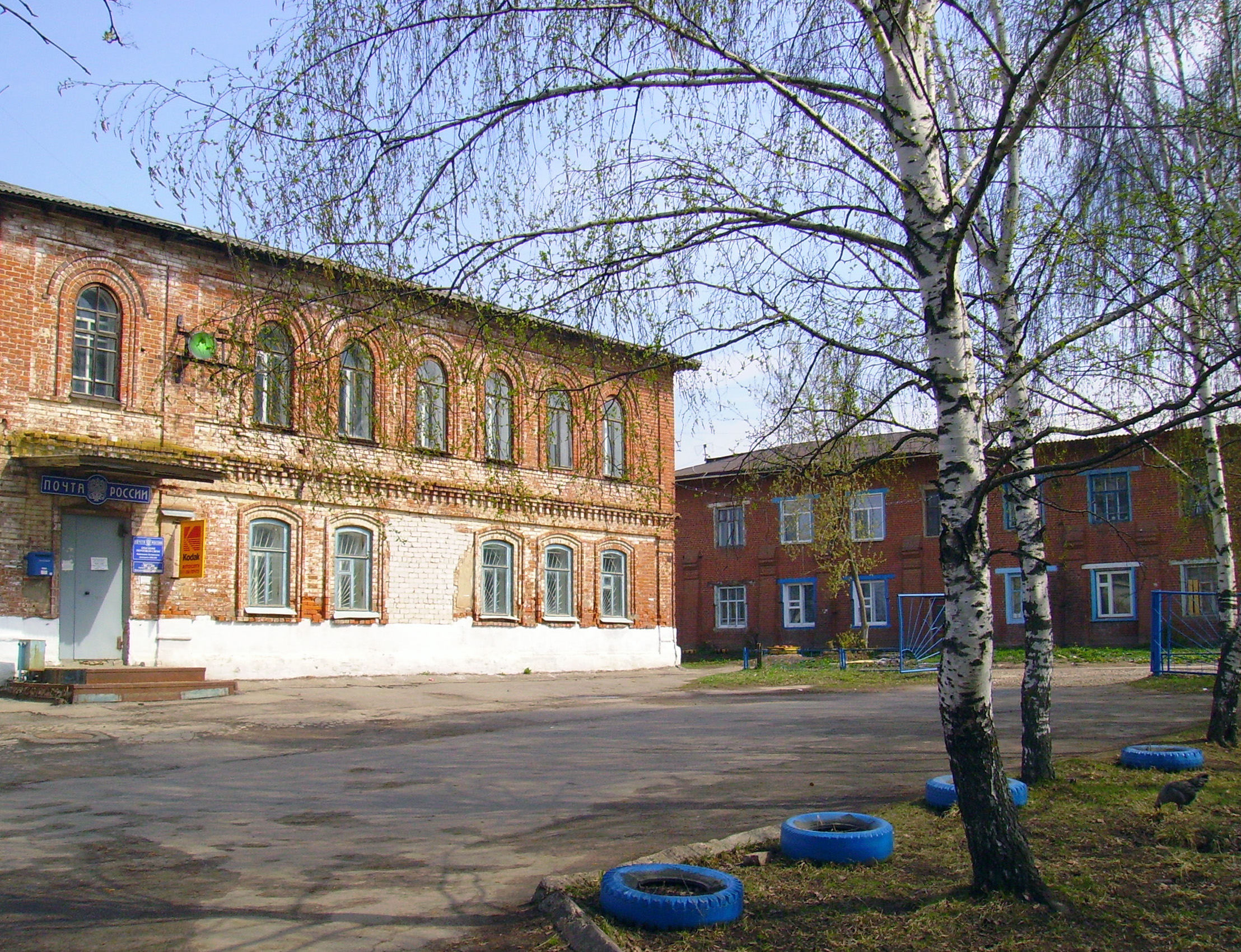 Town Post Office 606340 in Knyaginino